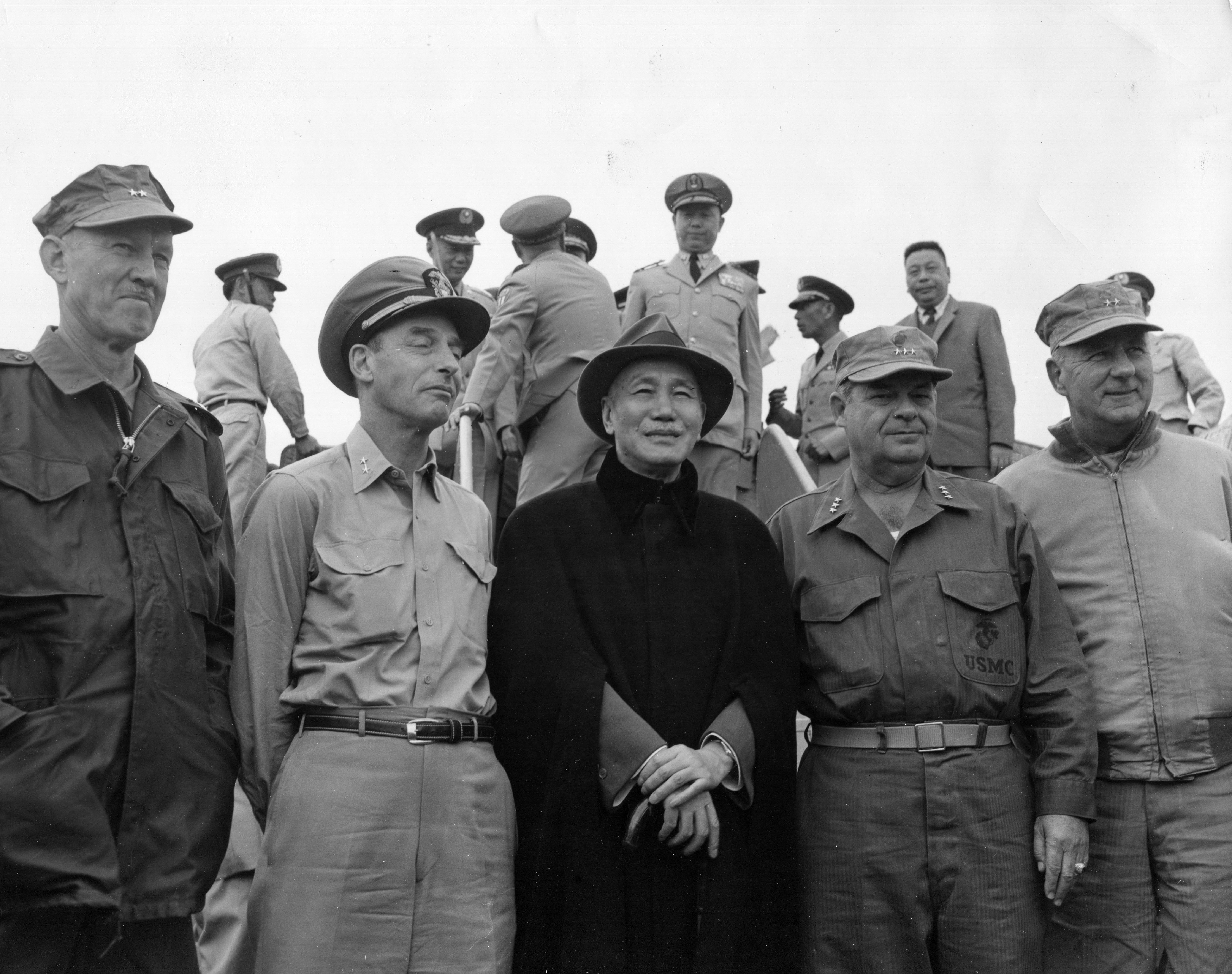 The Visit of Chiang Kai-shek during the fleet exercise on March 27, 1960. From left to right: Major general Richard C. Mangrum (Commanding general, 1st Marine Aircraft Wing), Rear admiral Charles O. Triebel (Commander, Amphibious Group ONE), Chiang Kai-shek, Lieutenant general Thomas A. Wornham (Commanding general, Fleet Marine Force, Pacific) and Major general Robert B. Luckey (Commanding general, 3rd Marine Division).